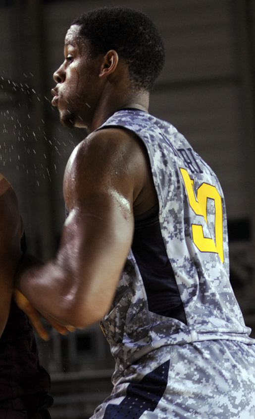 Tyler Davis, Texas A&M Aggies forward, attempts to get past Sagaba Konate, West Virginia Mountaineer forward, during the 2017 ESPN Armed Forces Classic basketball game at Ramstein Air Base, Germany, Nov. 11, 2017. The Aggies overcame a 13-point deficit to defeat the Mountaineers 88-65. The Armed Forces Classic is an annual game which brings live NCAA basketball to military audiences worldwide. The free event, attended by more than 3,100 fans, was open to service members, DoD civilians, and dependents. Ramstein hosted the inaugural event in 2012. (U.S. Air Force photo by Tech. Sgt. Sharida Jackson